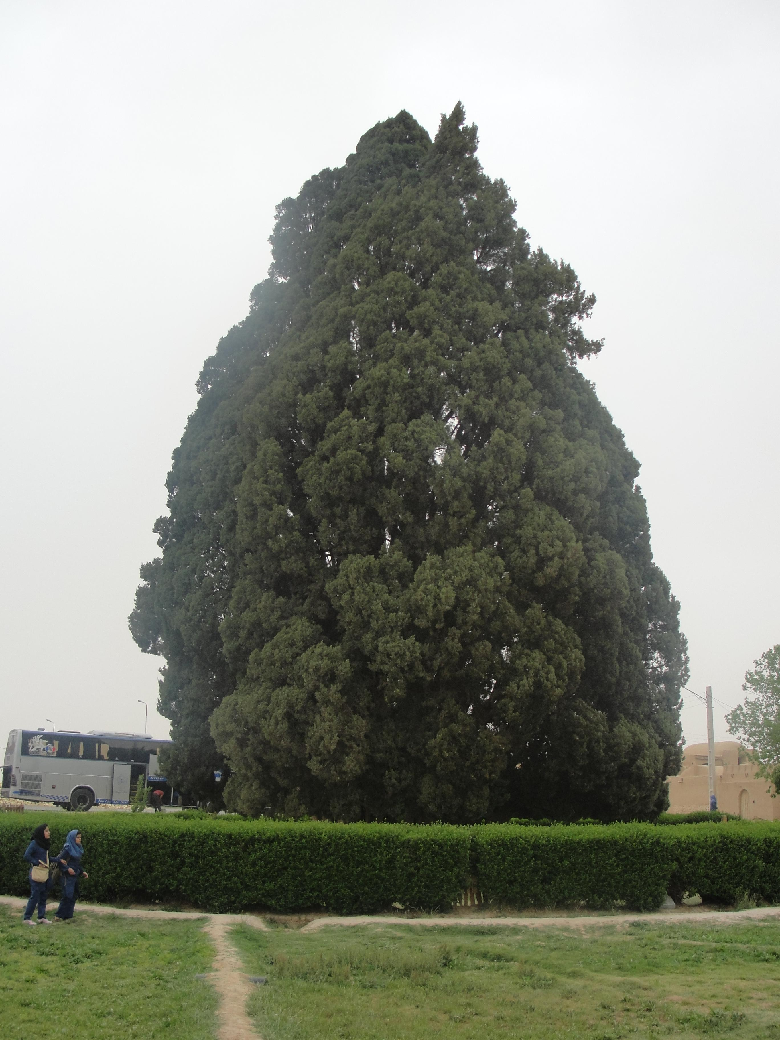 Cypress of Abarqu - Full view with two school girls in front of it